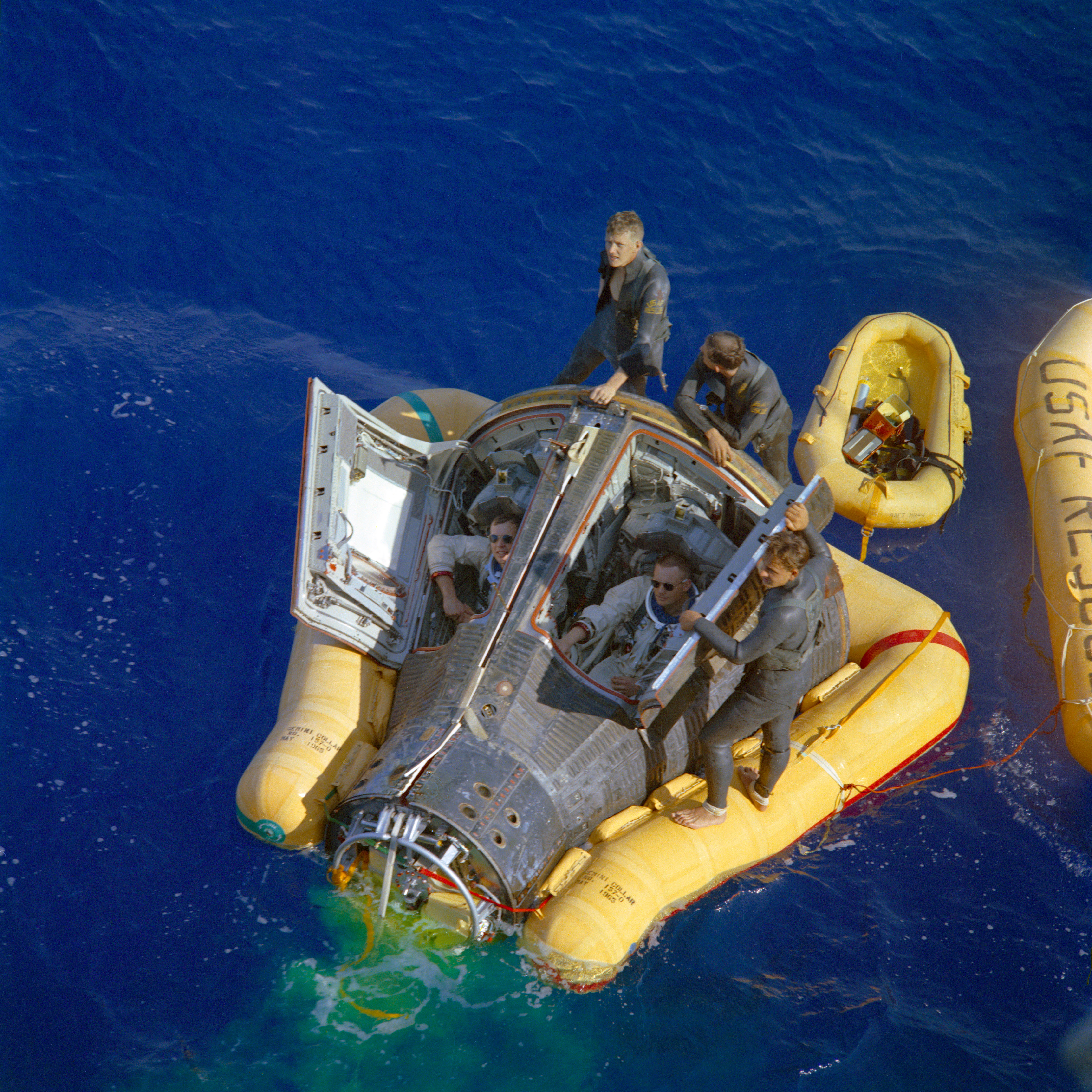 Astronauts Neil A. Armstrong (right) and David R. Scott (left) sit with their spacecraft hatches open while awaiting the arrival of the recovery ship, the USS Leonard F. Mason after the successful completion of their Gemini VIII mission. They are assisted by U.S. Air Force Pararescuemen, who jumped to their spacecraft. The Pararescuemen are: A/2C Glenn M. Moore (by the hatch), A/1C Eldridge M. Neal (upper left); and S/Sgt Larry D. Huyett (center standing on the floatation collar). The overhead view shows the Gemini 8 spacecraft with the yellow flotation collar attached to stabilize the spacecraft in choppy seas. The green marker dye is highly visible from the air and is used as a locating aid.